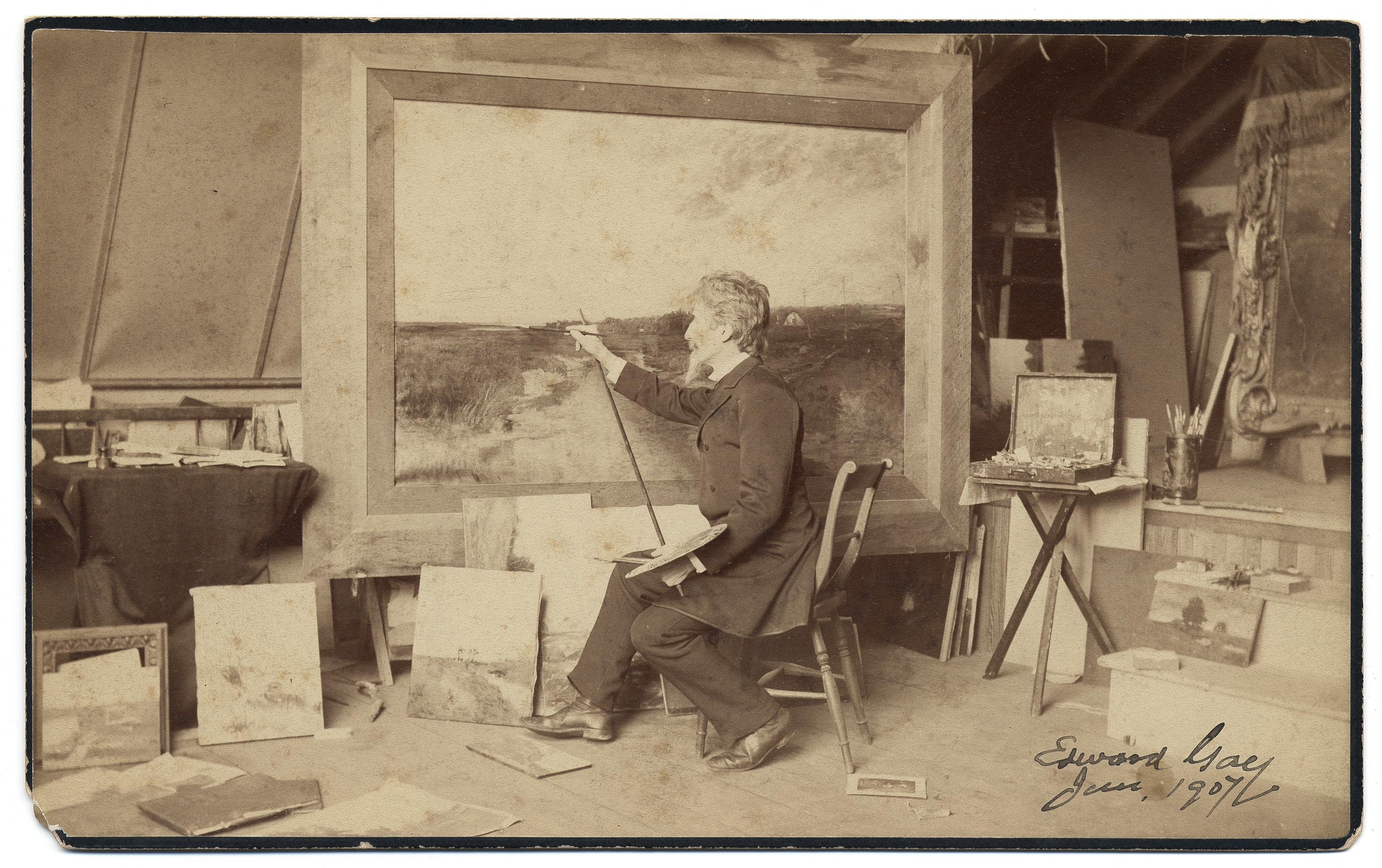 Edward Gay at his easel working on a painting. Inscription lower right: "Edward Gay, Jan. 1907". Gay, Edward, 1837-1928 Creator/Photographer: Unidentified photographer Medium: Black and white photographic print Dimensions: 12 cm x 19 cm Date: 1907 Persistent URL: Repository: Archives of American Art Native nameArchives of American ArtLocationWashington, D.C.Coordinates38° 53′ 52″ N, 77° 01′ 22″ W Established1954Website control : Q2860568 VIAF: 151134814 ISNI: 0000 0001 2185 0758 LCCN: n79065944 NLA: 35007823 GND: 1085306631 WorldCat Collection: Macbeth Gallery Records, c. 1890-1964 Accession number: aaa_macbgall_4699